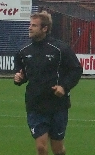 Peter Holmes warming up for York City against Cambridge United at Bootham Crescent, York on 4 October 2008